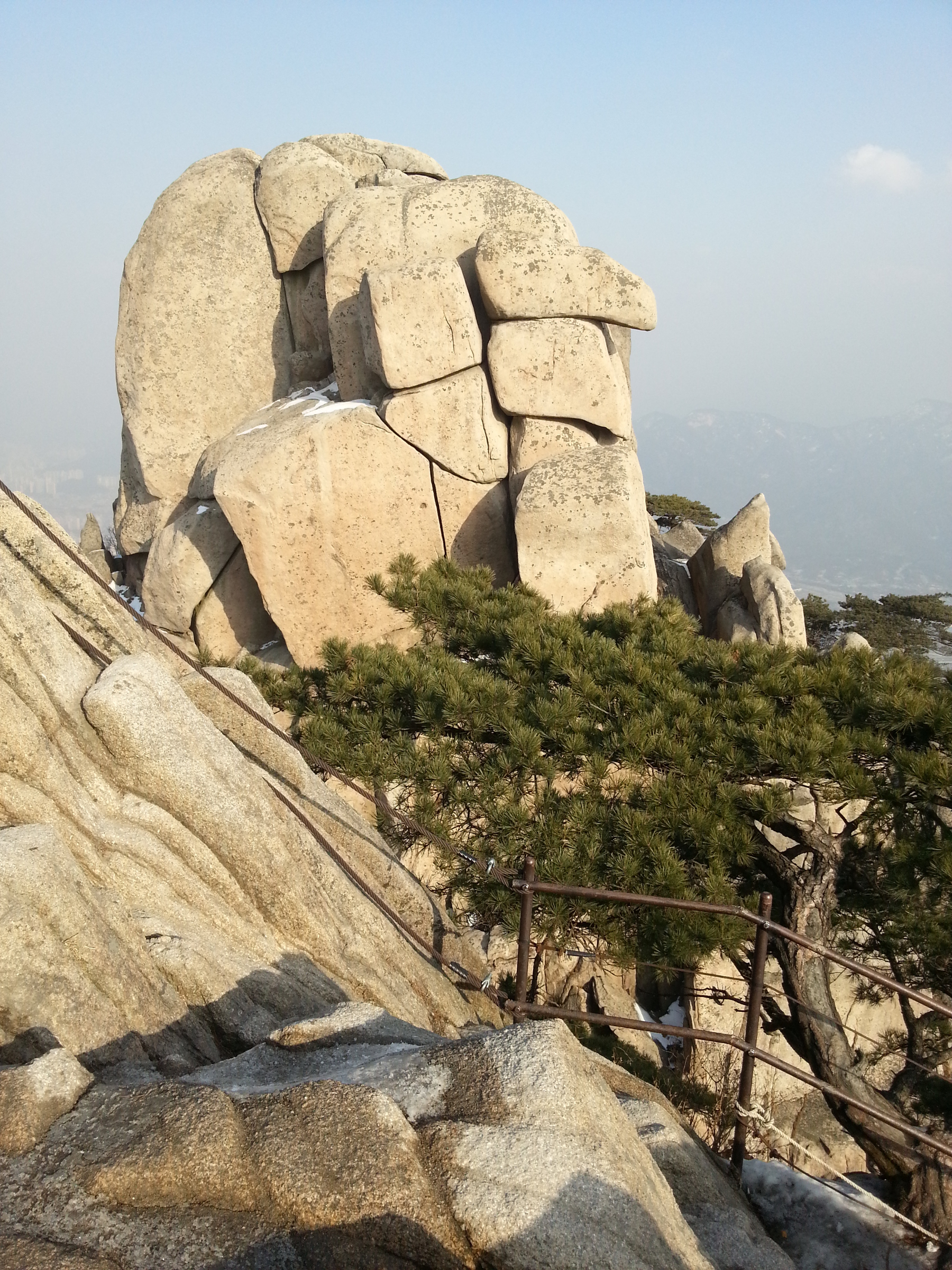 A mountain peak. Bukhansan National Park. South Korea.